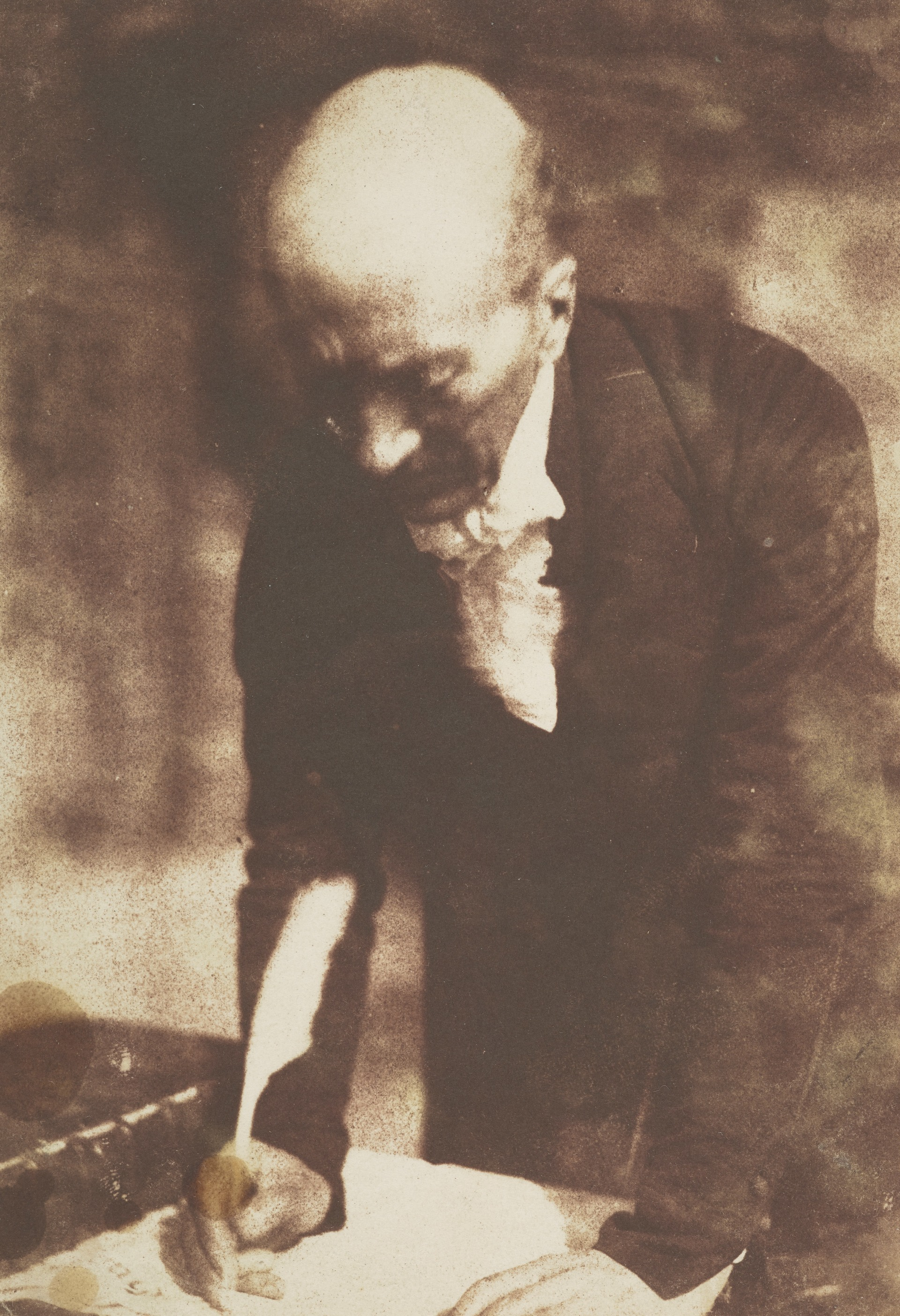 Rev. Dr Patrick Macfarlane, 1781 - 1849. Of Greenock; signatory of the Deed of Demission (23rd May 1843)